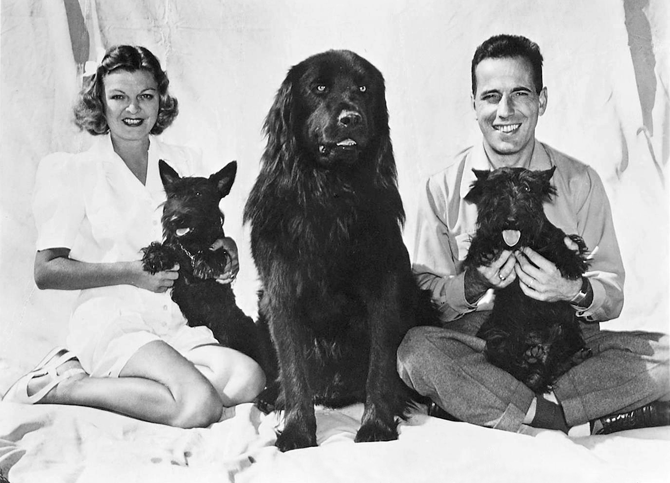 Publicity still of Mayo Methot and Humphrey Bogart with their three dogs